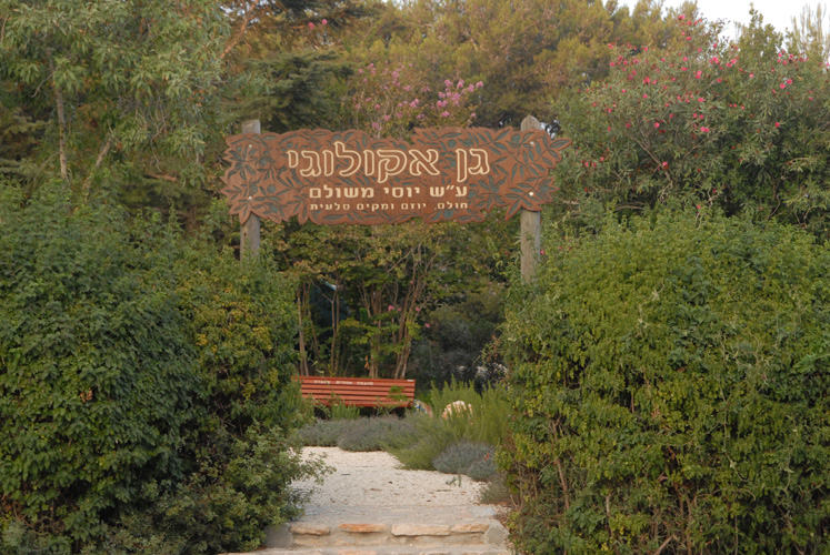 garden in Salit